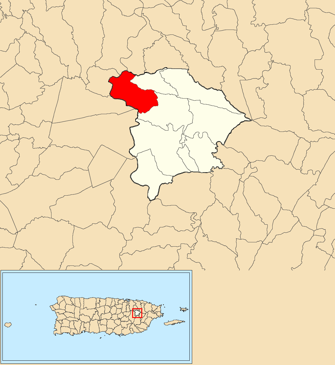 Jaguas, Gurabo, Puerto Rico locator map